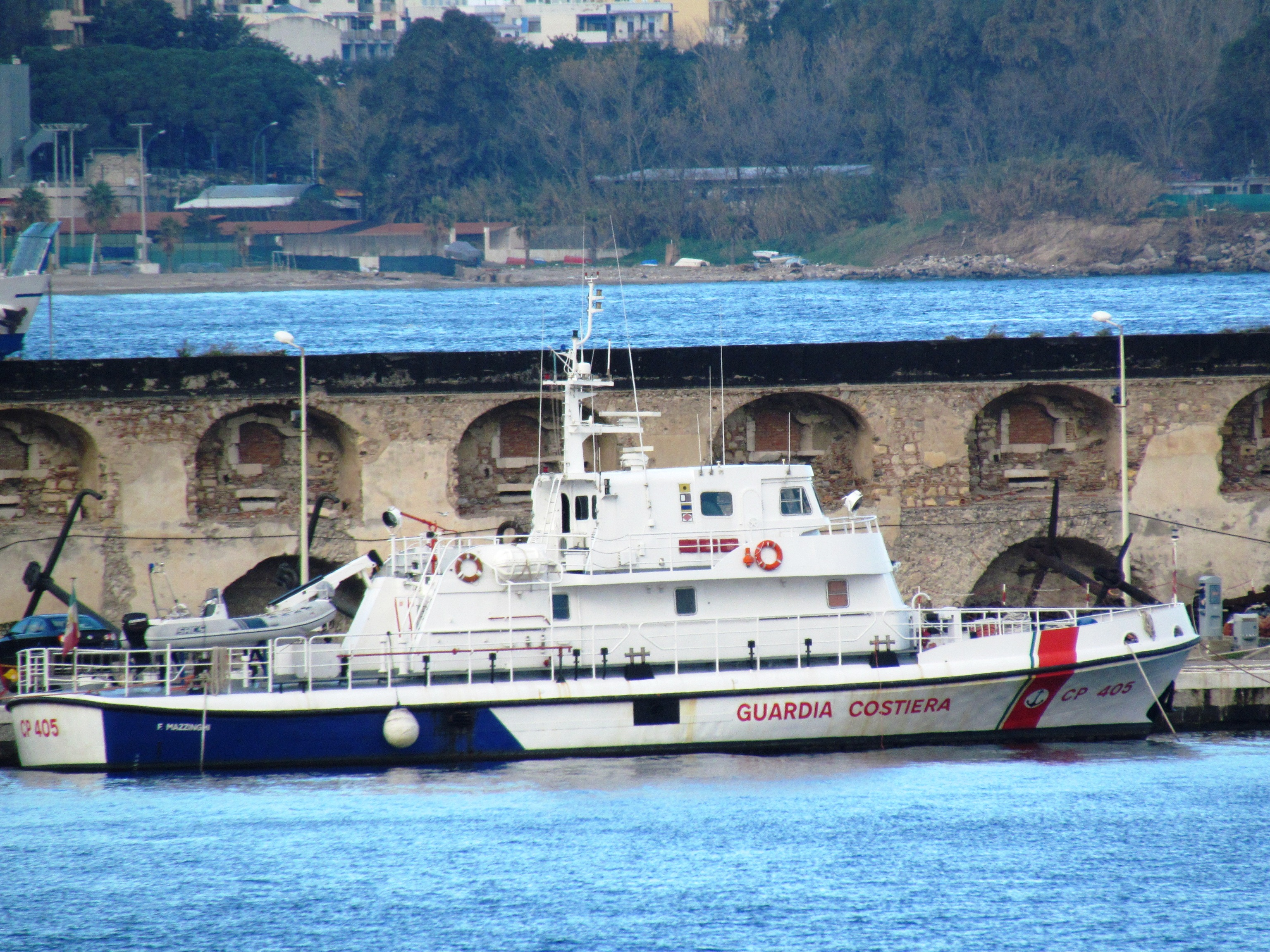 Patrol Boat of Italian Coast Guard "Mazzinghi"